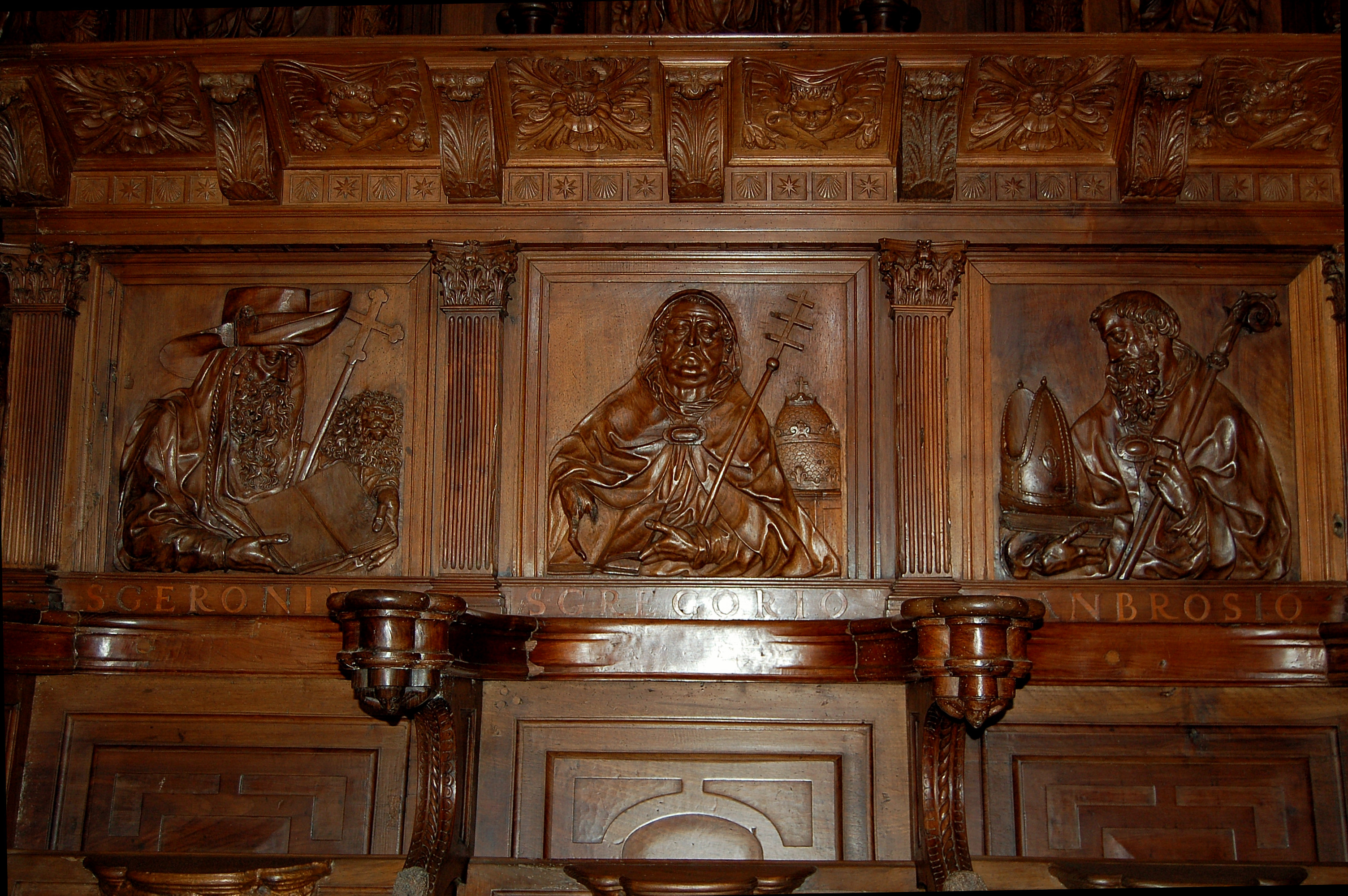 San Xerome, San Gregorio Magno e San Ambrosio no coro lígneo da Catedral de Santiago de Compostela, hoxe no mosteiro de San Martiño Pinario